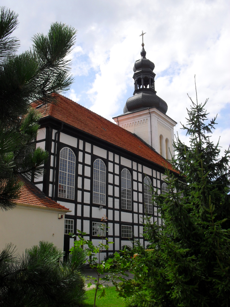 St. Mary church in Ostrów Wielkopolski